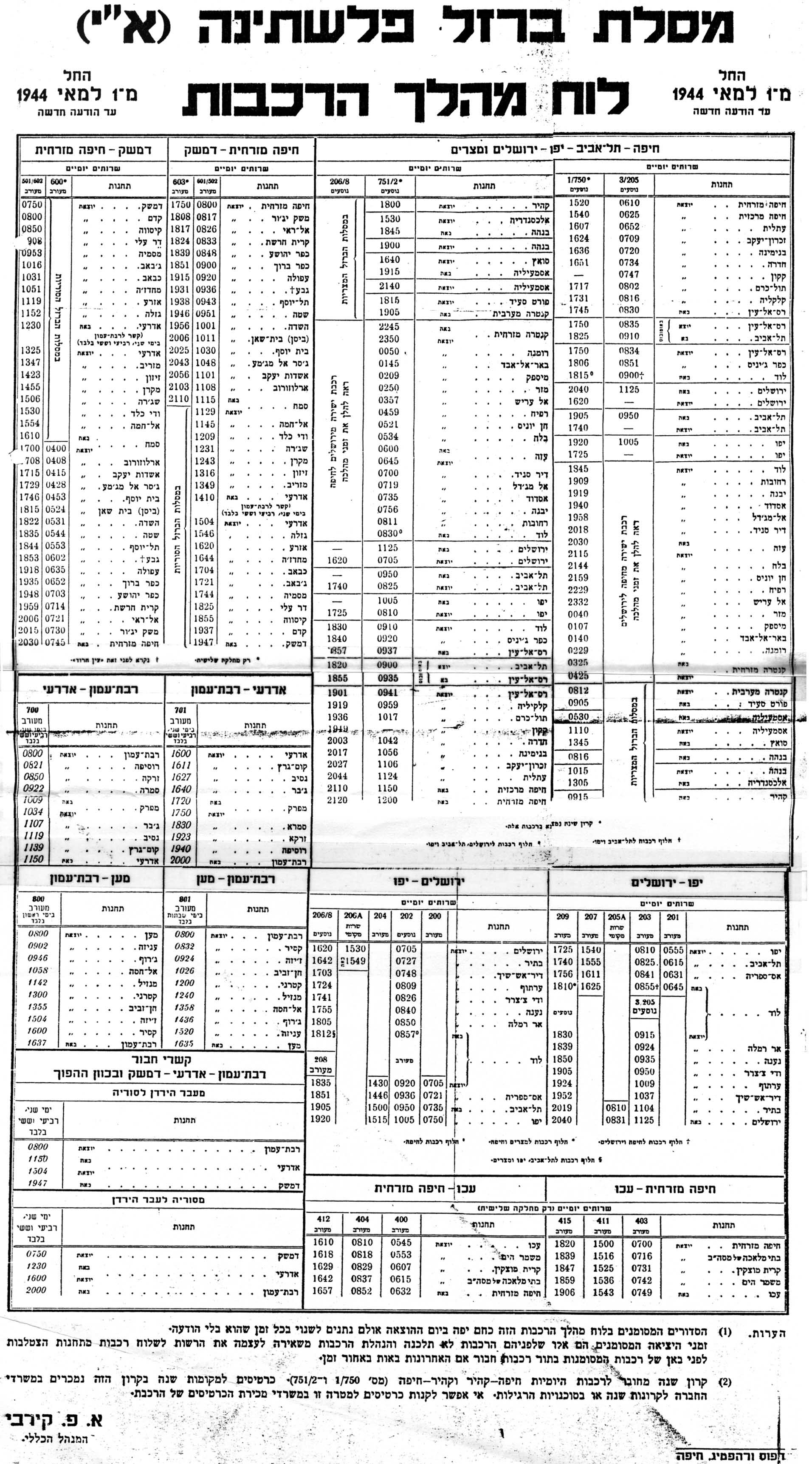 Schedule of Palestine Railways begining on May 1st, 1944. In Hebrew.